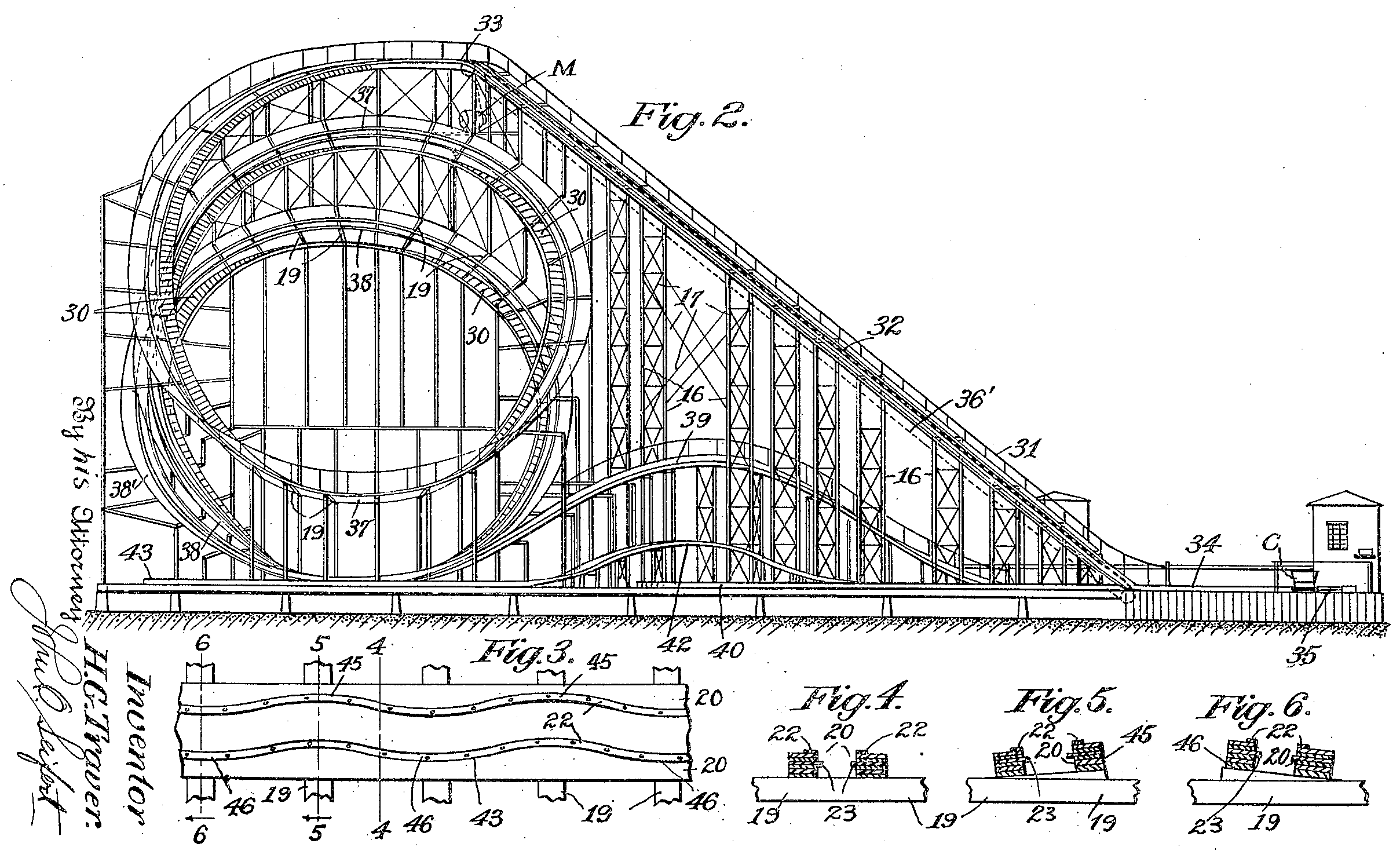 A patent related to Harry G. Traver's Giant Cyclone roller coasters